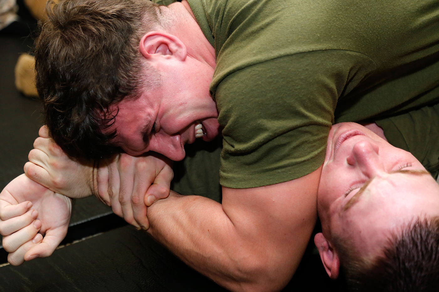 U.S. 5TH FLEET AREA OF RESPONSIBILITY (Sept. 30, 2014) U.S. Marine Corps Sgt. Jacob C. Hunter, top, a data chief with the 11th Marine Expeditionary Unit, and a native of Wilson, Pennsylvania, executes a bent armbar from a side mount during a Marine Corps Martial Arts Program (MCMAP) training session aboard the USS San Diego, Sept. 30, 2014. The 11th MEU is embarked with the Makin Island Amphibious Ready Group and deployed to maintain regional security in the U.S. 5th Fleet area of responsibility. (U.S. Marine Corps photos by Gunnery Sgt. Rome M. Lazarus/Not Released)